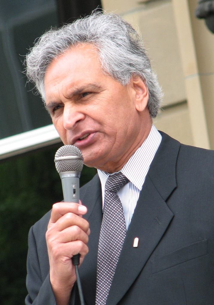 Raj Pannu, Alberta NDP MLA for Edmonton Strathcona, speaking at a rally at the Alberta Legislature, on June 11, 2007.